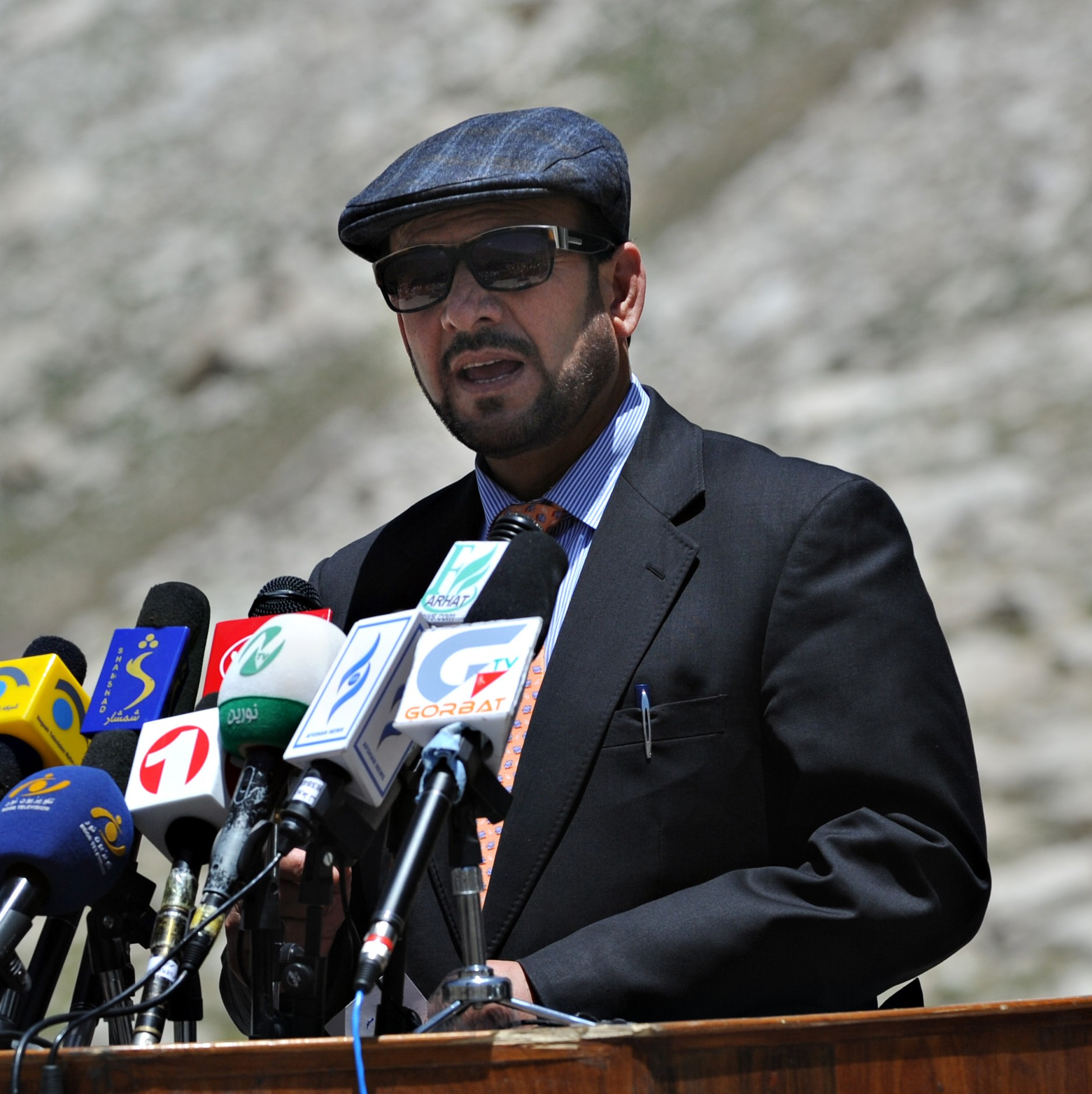 Parwan Governor Abdul Basir Salangi makes remarks during a ceremony to mark the beginning of renovations at the Salang Tunnel on the border of Parwan and Baghlan Provinces, Afghanistan.